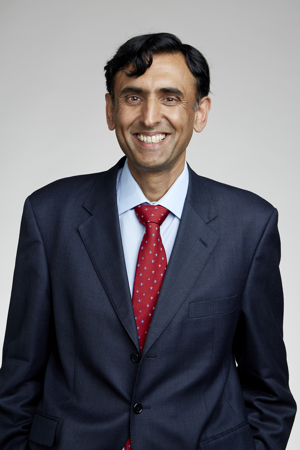 Jas Pal Singh Badyal (born 1964) FRS is a Professor in the Department of Chemistry at Durham University. Attribution: The Royal Society